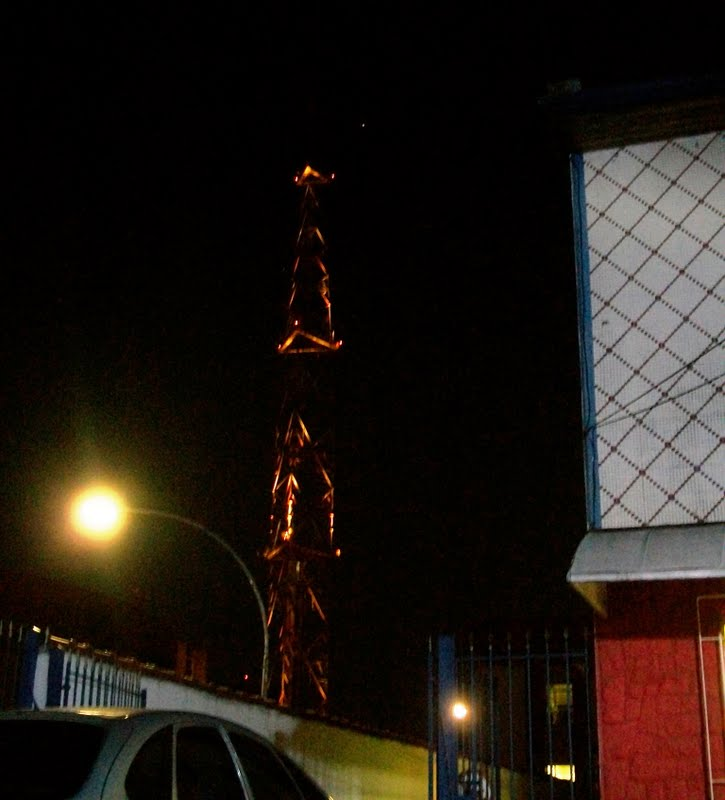 Antena da Rádio Transamérica Vista à noite na Rua Cerro Corá (Alto de Pinheiros)